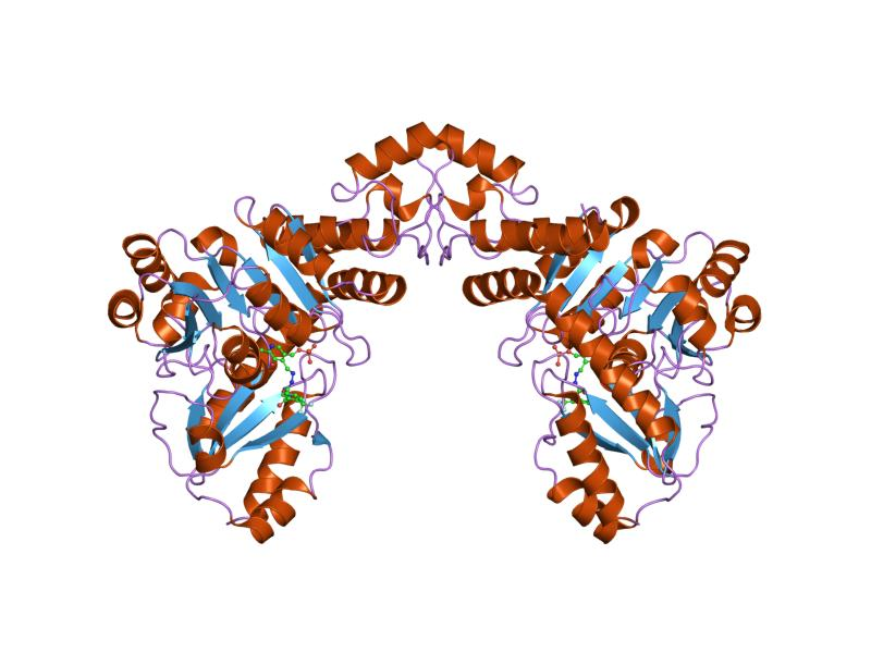 Cartoon representation of the molecular structure of protein registered with 2fq6 code.